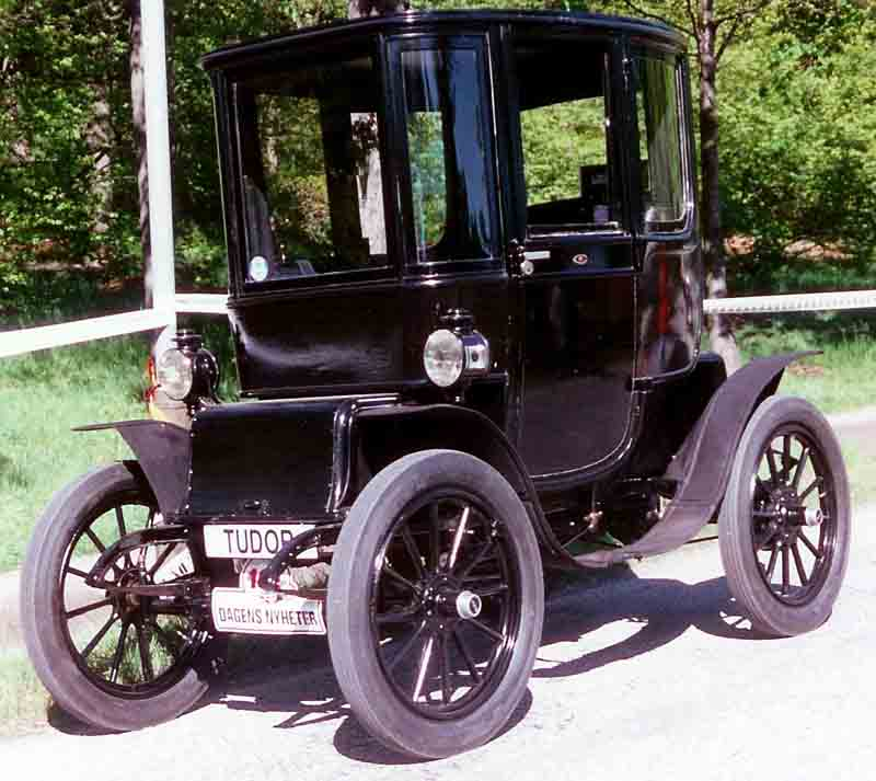 Baker Electric Coupé 1908